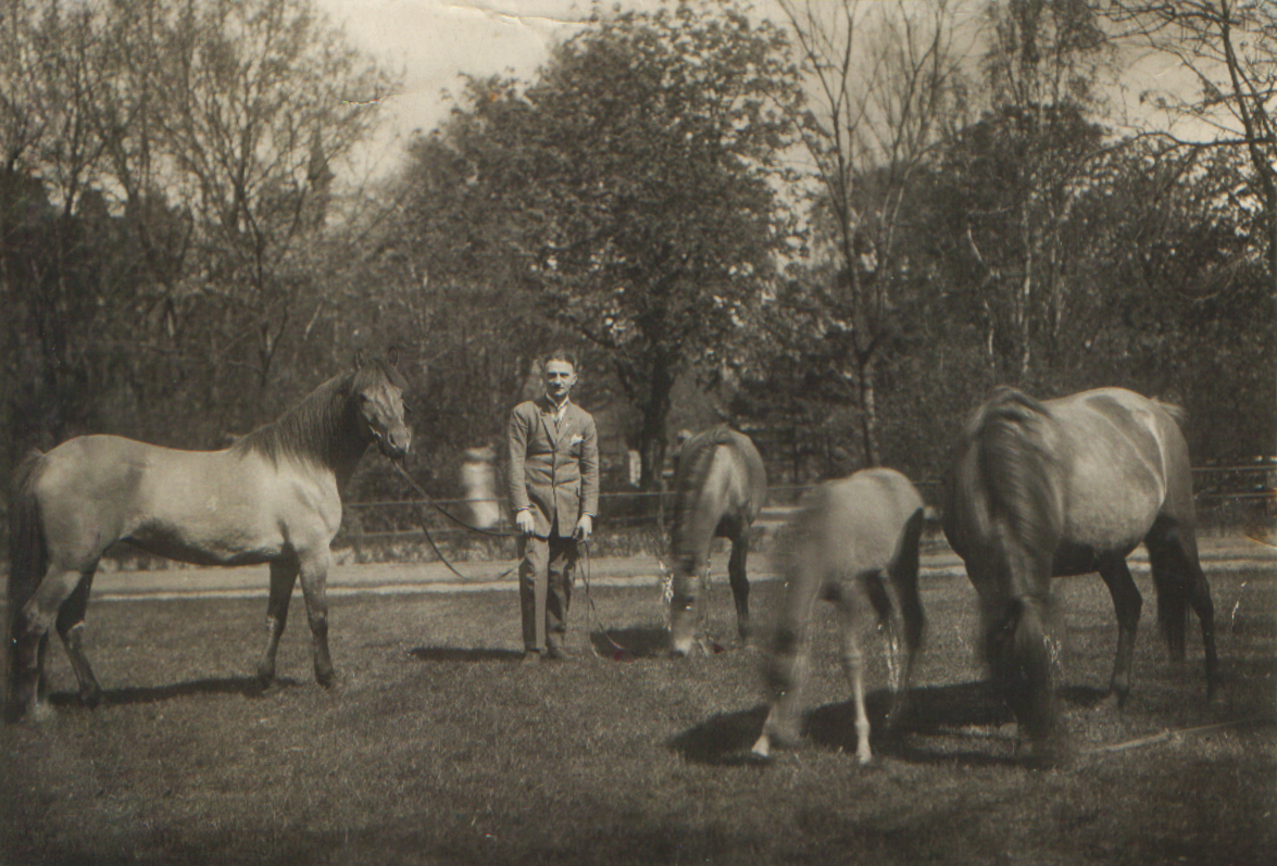 Tadeusz Vetulani at the Poznań Zoo.